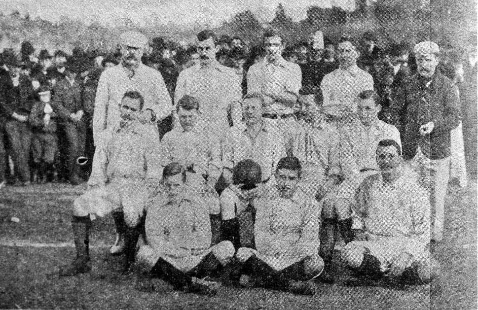 The first Argentine national football team before the match v. Uruguay. Personnel are (stood): J.H. Chevallier Boutell (linesman), Eduardo Duggan, William Leslie, Walter Buchanan, R. Rudd (referee); (middle): Edward Morgan, Juan J. Moore (c), Juan Anderson, Carlos Dickinson, Jorge G. Brown; (down): Ernesto Brown, José B. Laforia, Carlos Buchanan.